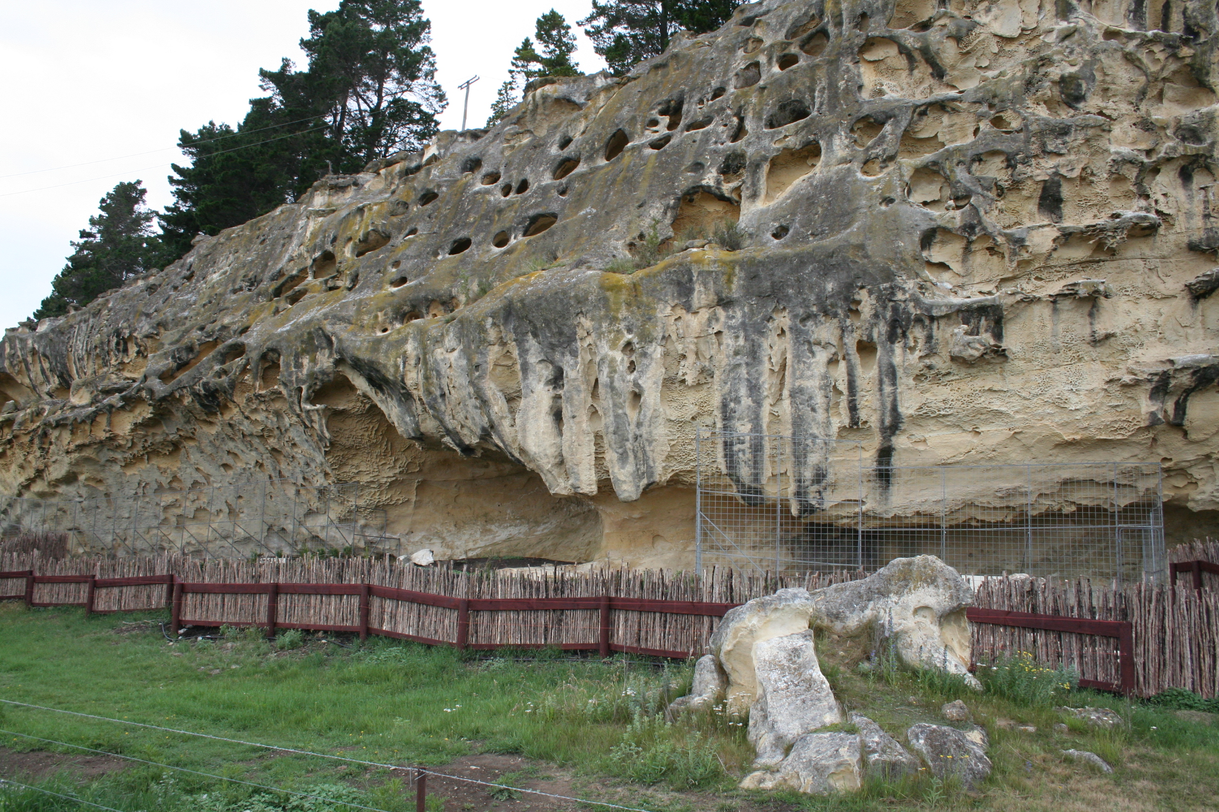 View over Takiroa Rock Art Site near Duntroon, Waitaki Valley, South Island, New Zealand